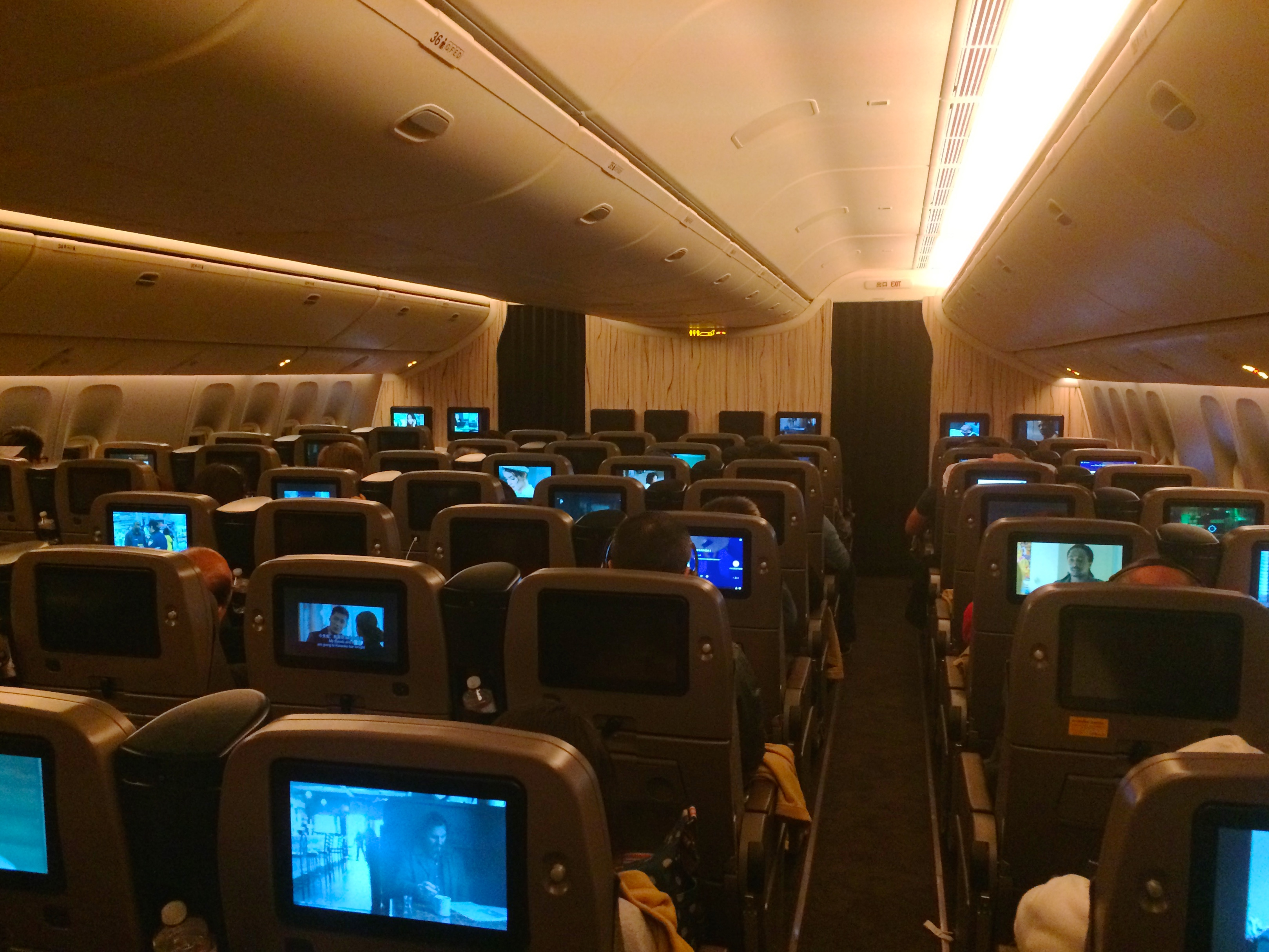 China Airlines Boeing 777-300ER Premium Economy Class